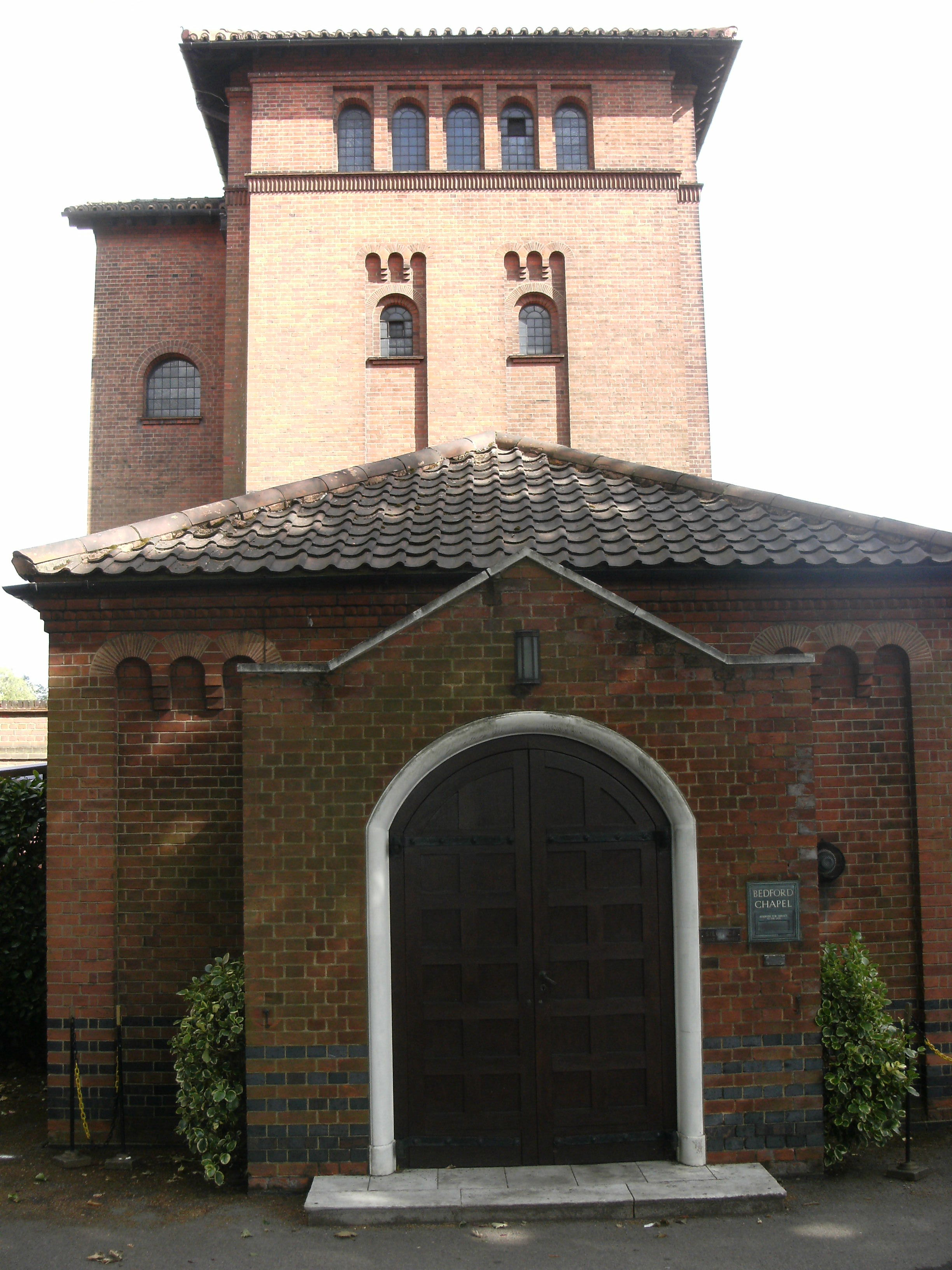 Bedford Chapel at Golders Green Crematorium (2011-05-31 in London)